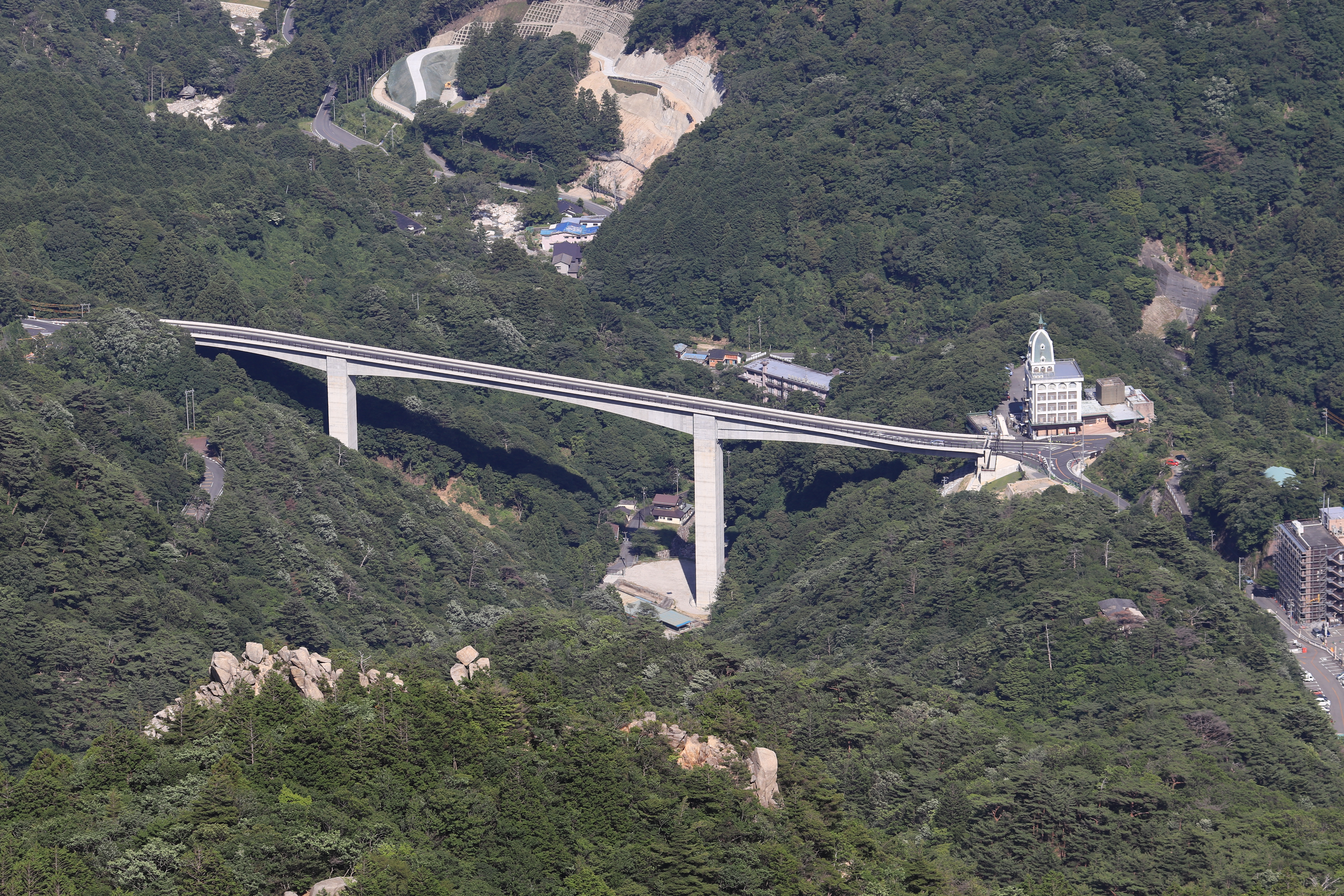 Yunoyamakamoshika Bridge of Mie Prefectural Road Route 577 (Yunoyamaonsen Line) over Mitaki River seen from Mount Gozaisho in Komono, Mie Prefecture, Japan.